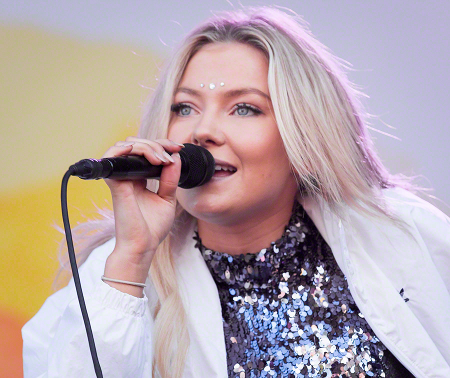 Astrid S at the main stage during Stavernfestivalen in Stavern on 09. July 2016. Lineup:Astrid S (vocal)Unidentified musician (drums)Unidentified musician (keyboard)